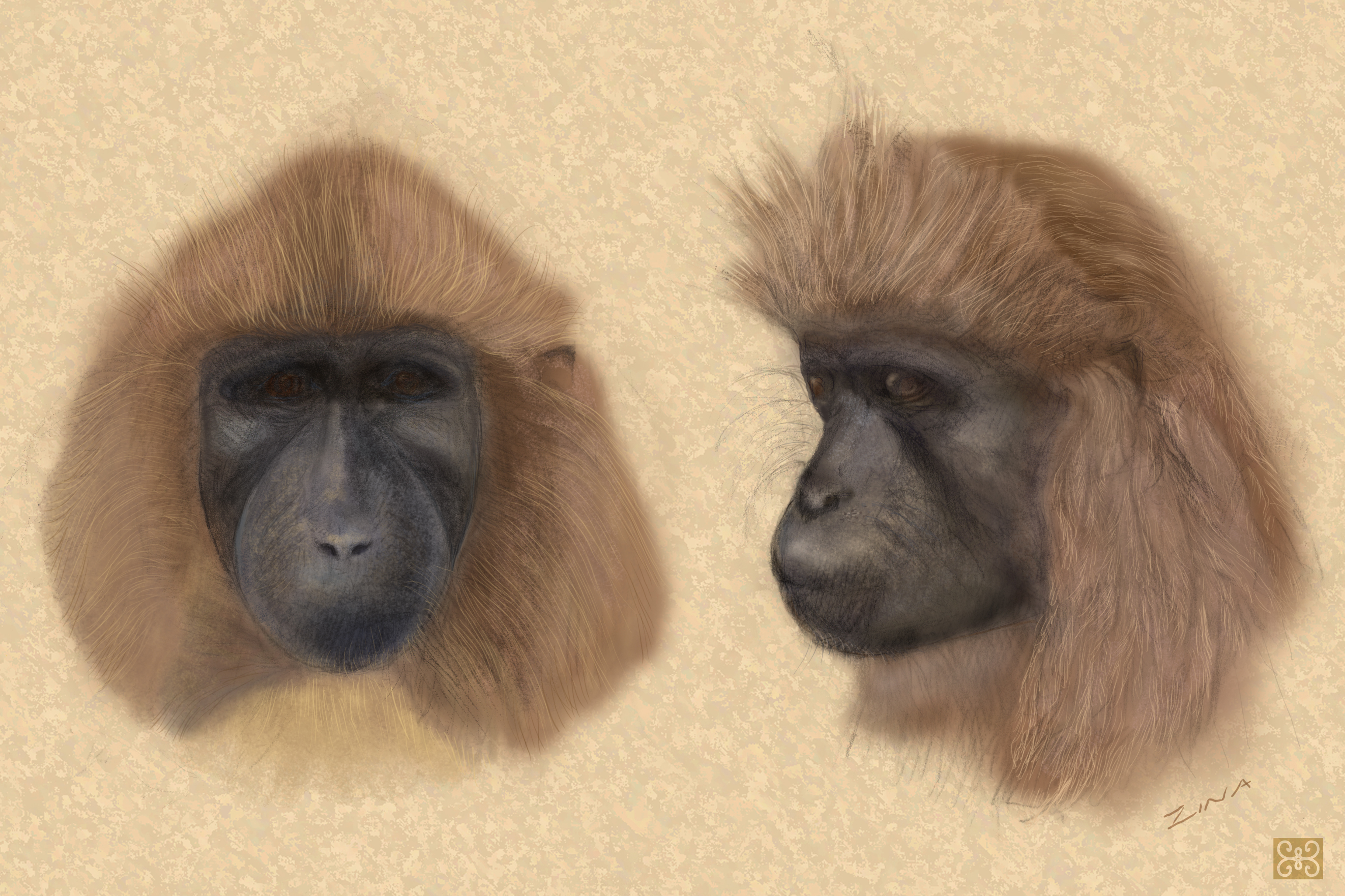 Illustration of the face of the highland mangabey (Lophocebus kipunji). The artist's reconstruction was drawn from research video taken by C. L. Ehardt in Tanzania in the Ndundulu Forest of the Udzungwa Mountains and in the Southern Highlands.